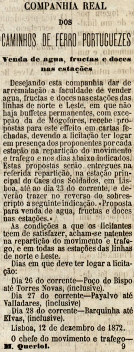 Advertisement of the Companhia Real dos Caminhos de Ferro Portugueses (Royal Company of the Portuguese Railways), for the opening of the proposals for the sale of fruit, water and candy at several train stations on its Northen and Eastern Railways. This image was published on the Diario Illustrado newspaper No. 172, of 19th December 1872, and scanned by the Biblioteca Nacional de Portugal.